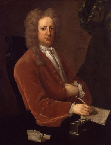 All images in this batch have been confirmed as author died before 1939 according to the official death date listed by the NPG.